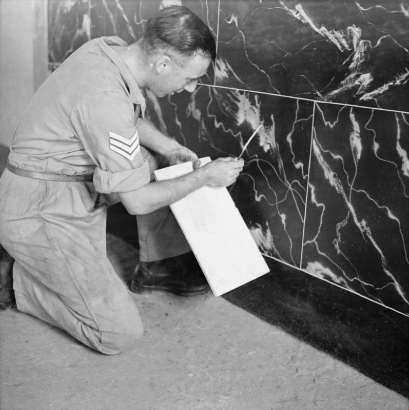 British Forces in the Middle East, 1945-1947 Sergenat C Crane from Wolverhampton had worked for the Goodyear tyre company before the war but decided to retrain and set himself up with a painting and decorating business. Here he practices producing a marble paint effect on a wall using a feather to apply the paint. The painting and decorating course was just one of many pre-vocational courses on offer at the college in Cairo to prepare soldiers awaiting demobilisation for a return to 'civvy street'.